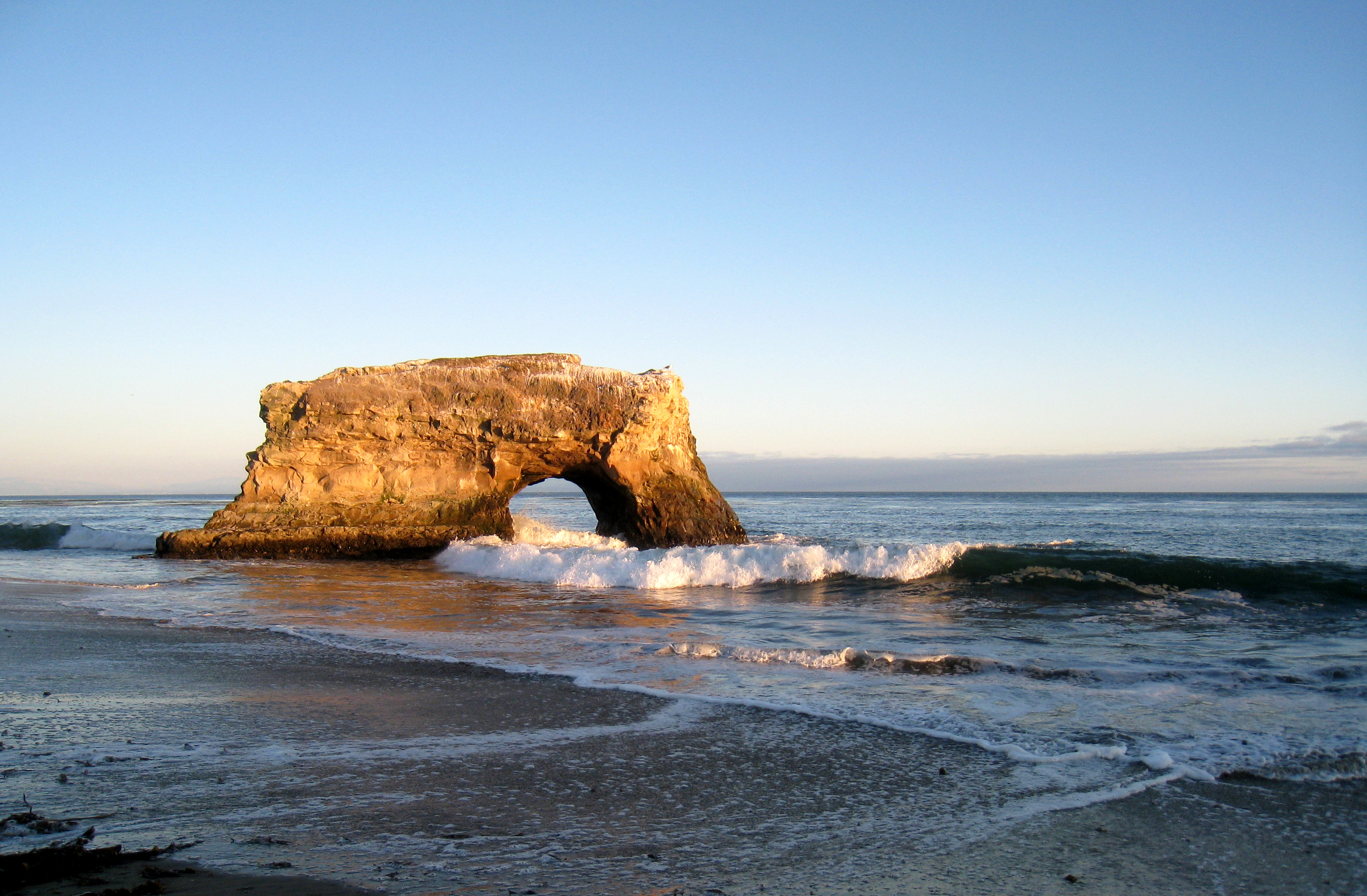 Rock archway at Natural Bridges State Beach in Santa Cruz, California (U.S.A.).